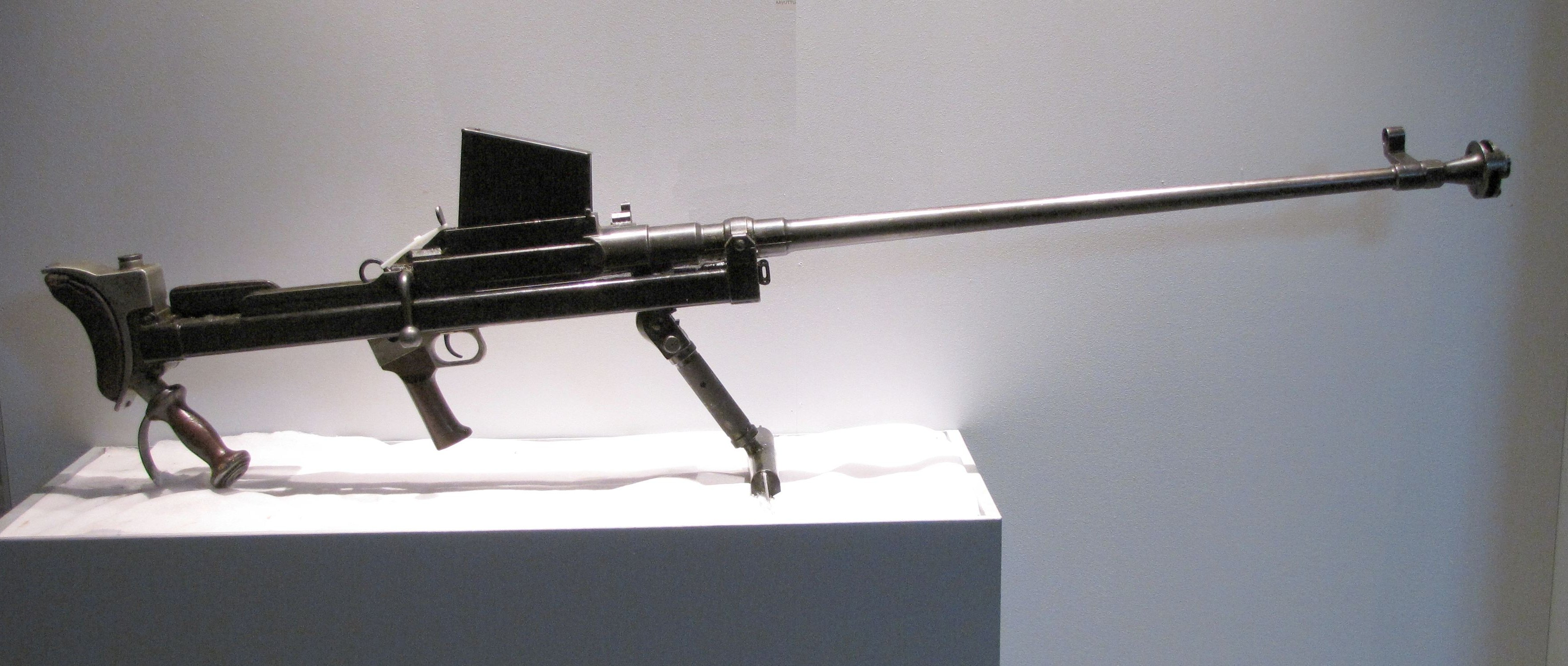 Boys anti-tank rifle. Photographed in the "Winter War - 70 years" exhibition in the Military Museum of Finland.